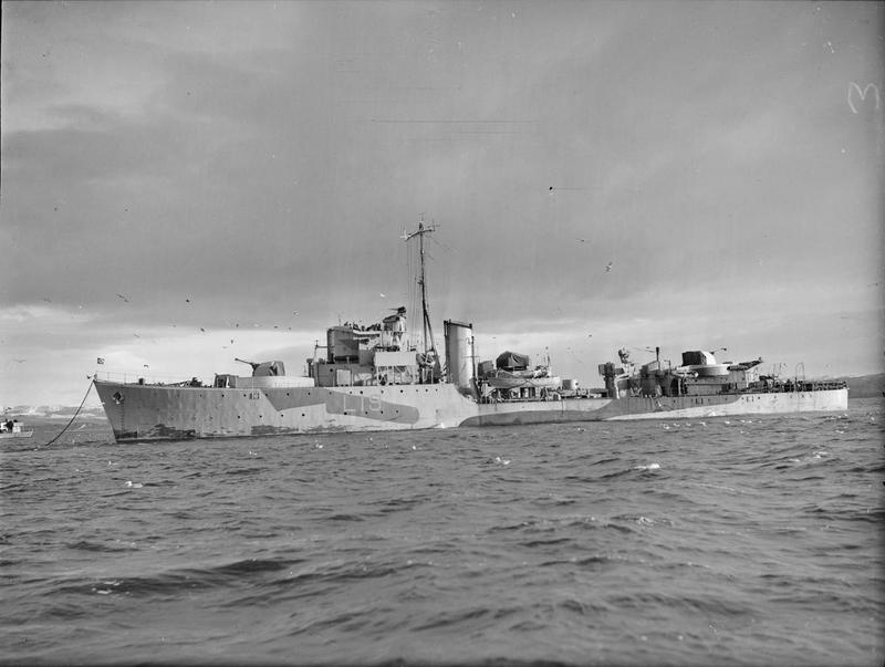 La Combattante, New Destroyer For Fighting French Navy, Built in British Shipyards. 14 January 1943, La Combattante Has Been Launched in the Presence of Rear-admiral Auboyneau, C-in-c, Fighting French Navy. The French destroyer LA COMBATTANTE.